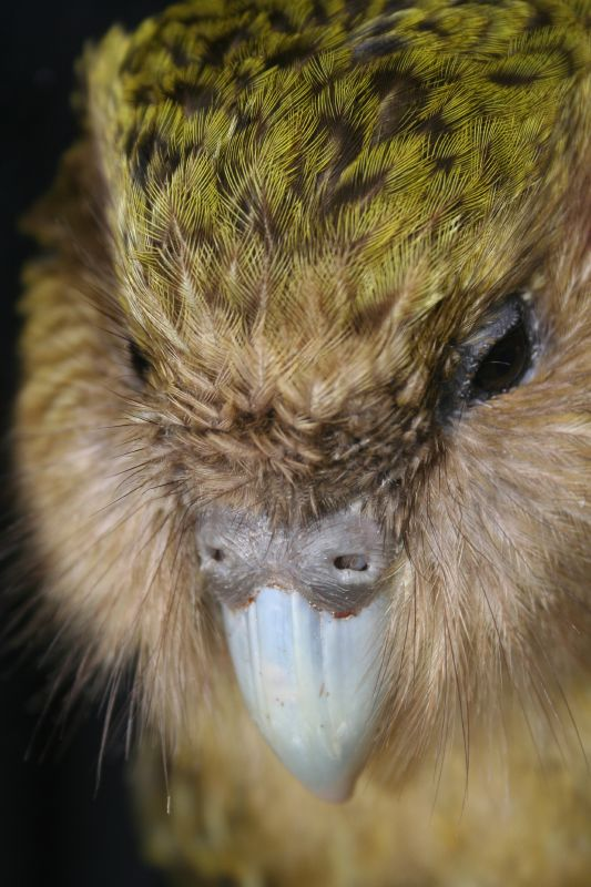 Kakapo. His name is Felix and he was not an easy capture for his annual condition check. Endemic to New Zealand.